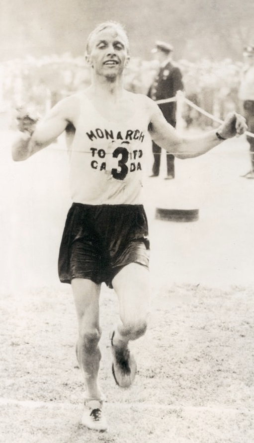 1933 Toronto AC Runner Dave Komonen Wins 26 Mile Race Press Photo